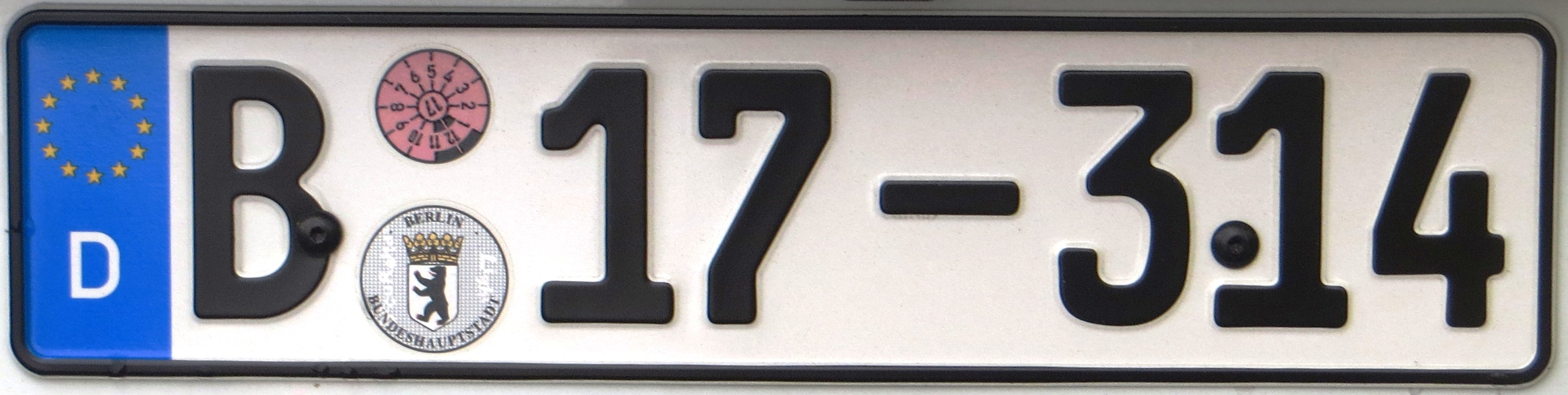 German semi-diplomatic license plate for technical or administrative staff of embassies or international organisations, B = Berlin, 17 = USA